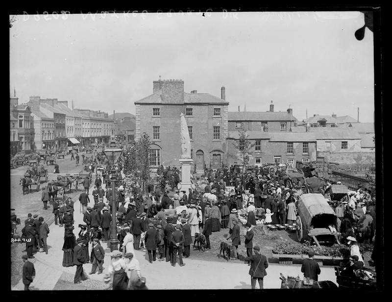 Creator: H. Allison & Co. Photographers Date: c.1910 Original Format: Glass Plate Negative Description: View over the busy market square in Dundalk PRONI Ref: D2886/W/Portrait/171 Copying and copyright: Please For Copy Orders, contact: For fees and charges